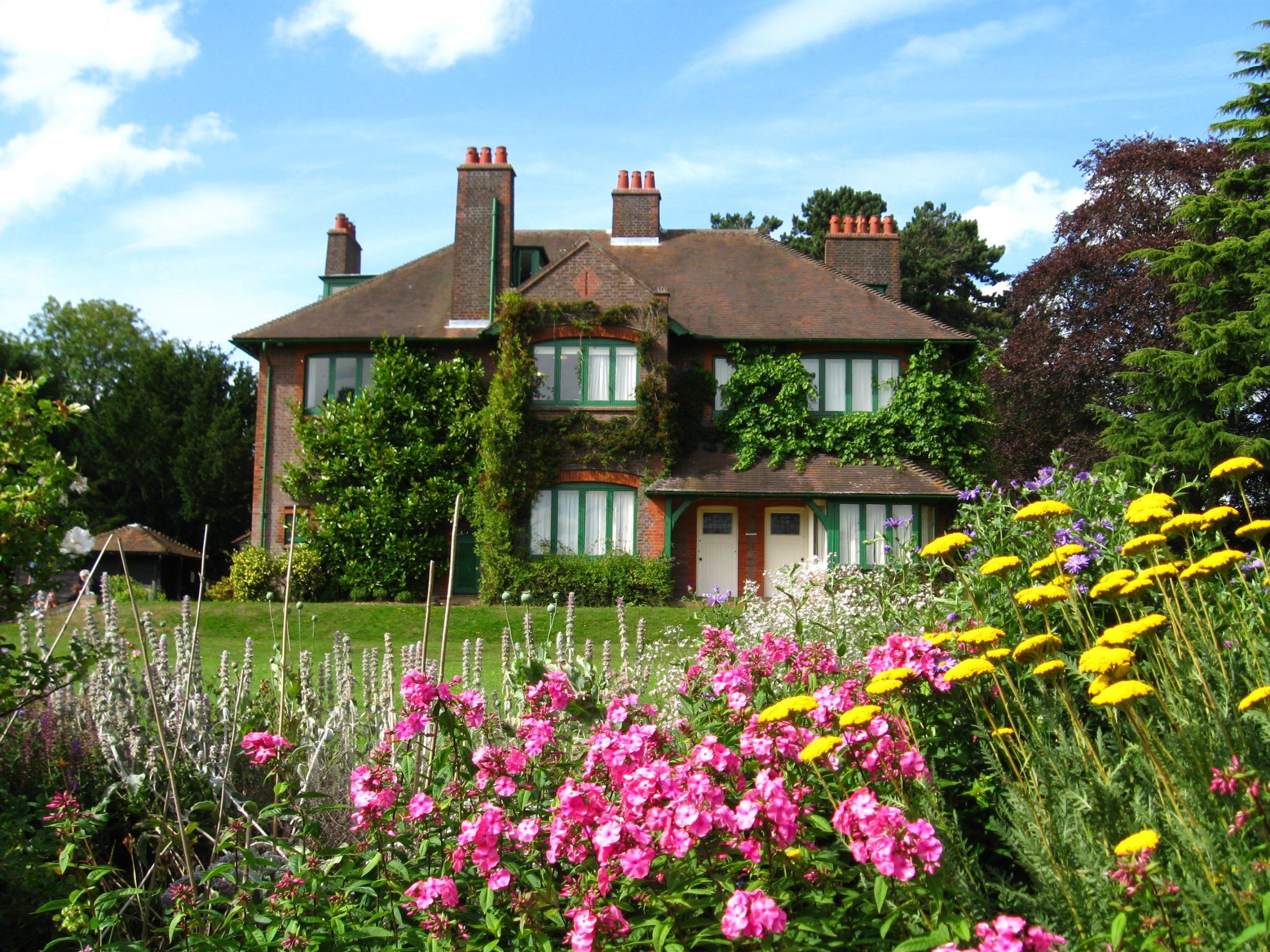 Shaw's Corner at Ayot St Lawrence